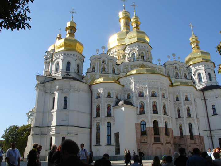 Kiev Pechersk Lavra, Kiev, Ukraine.